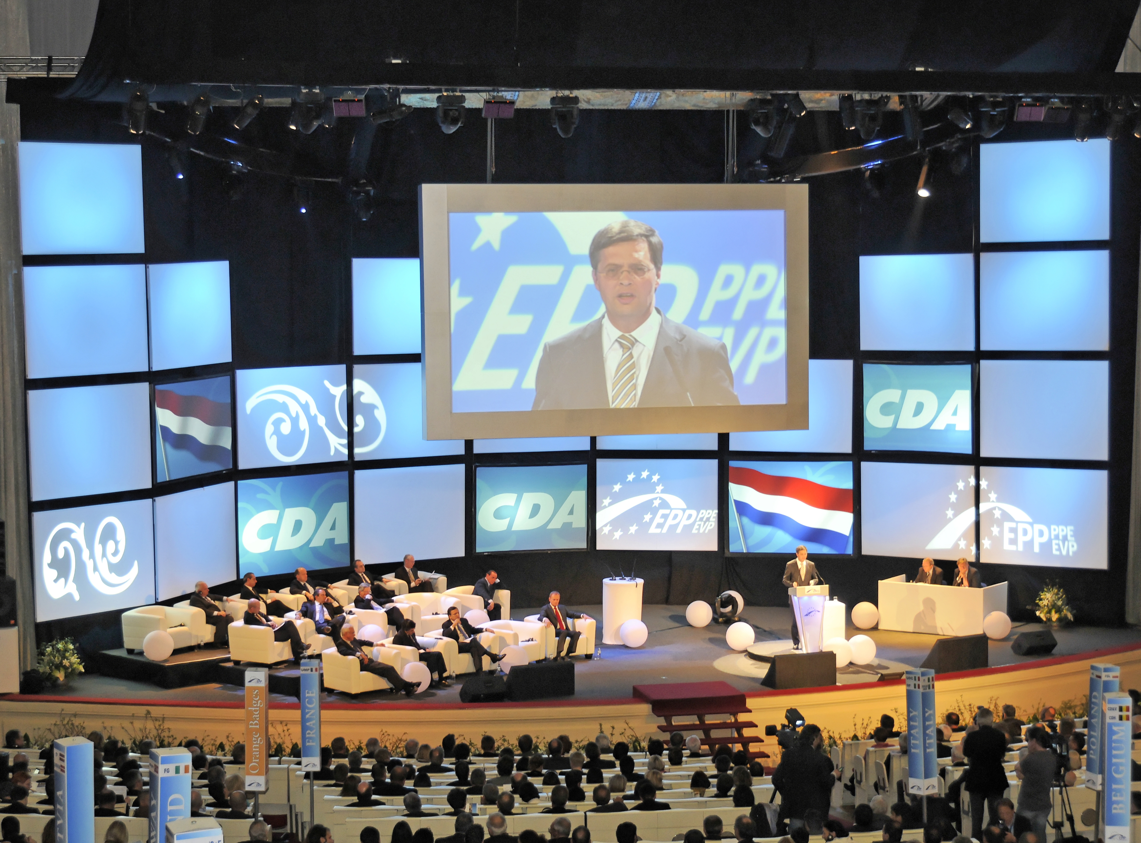 EPP Congress in Warsaw